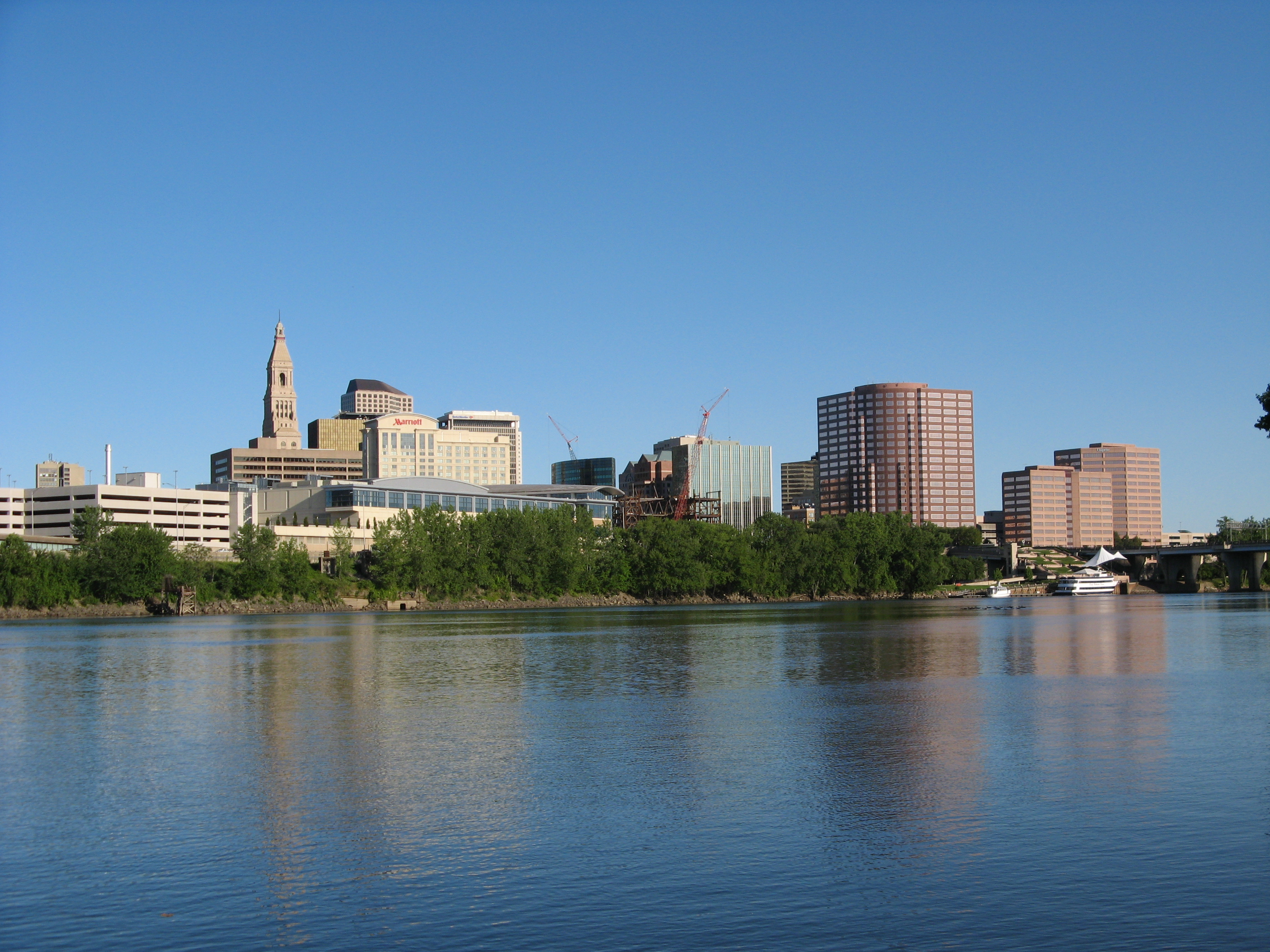 The skyline of Hartford, Connecticut, USA as seen from across the Connecticut River